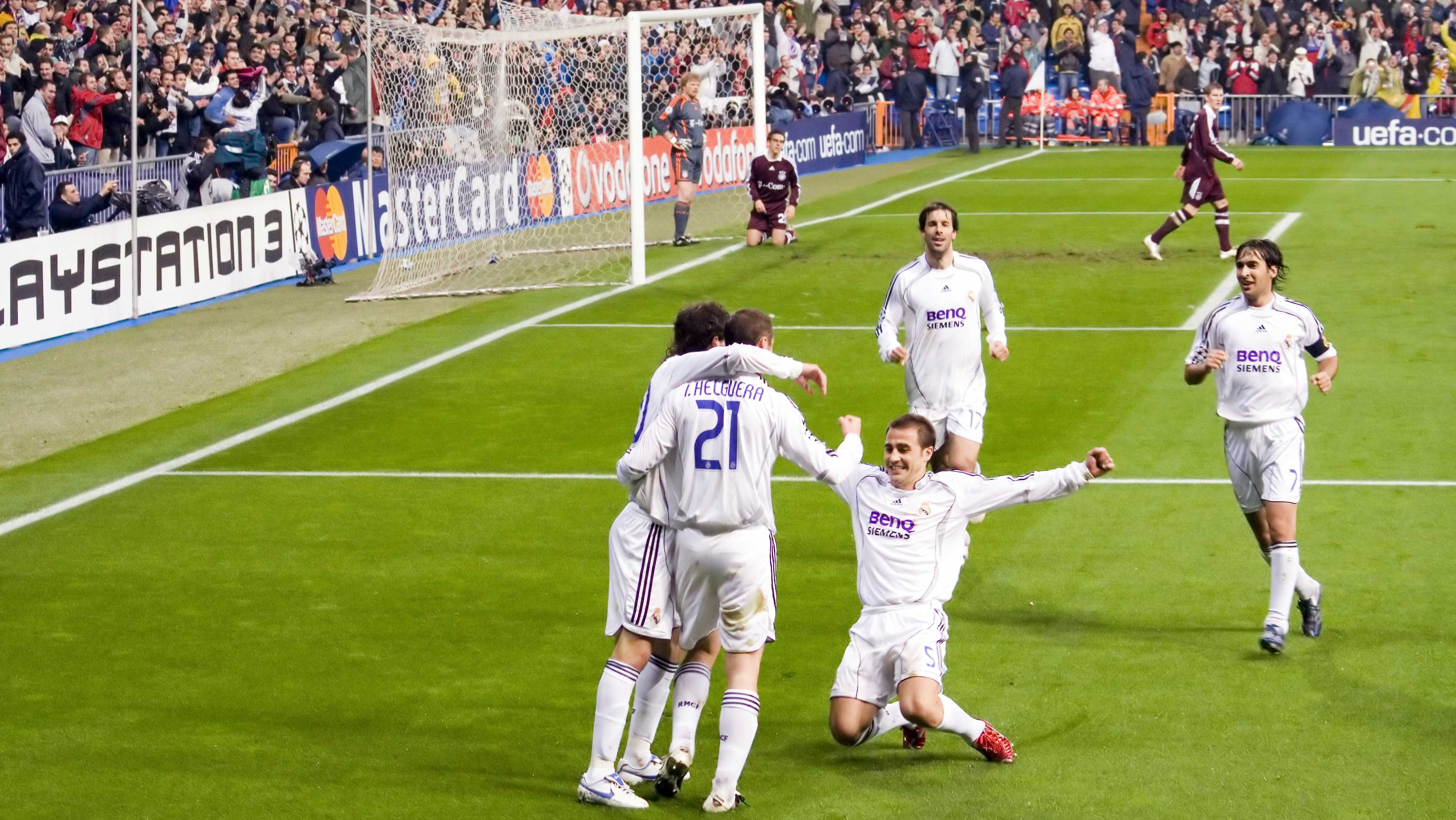 Real Madrid vs Bayern MunichReal Madrid vs Bayern Munich